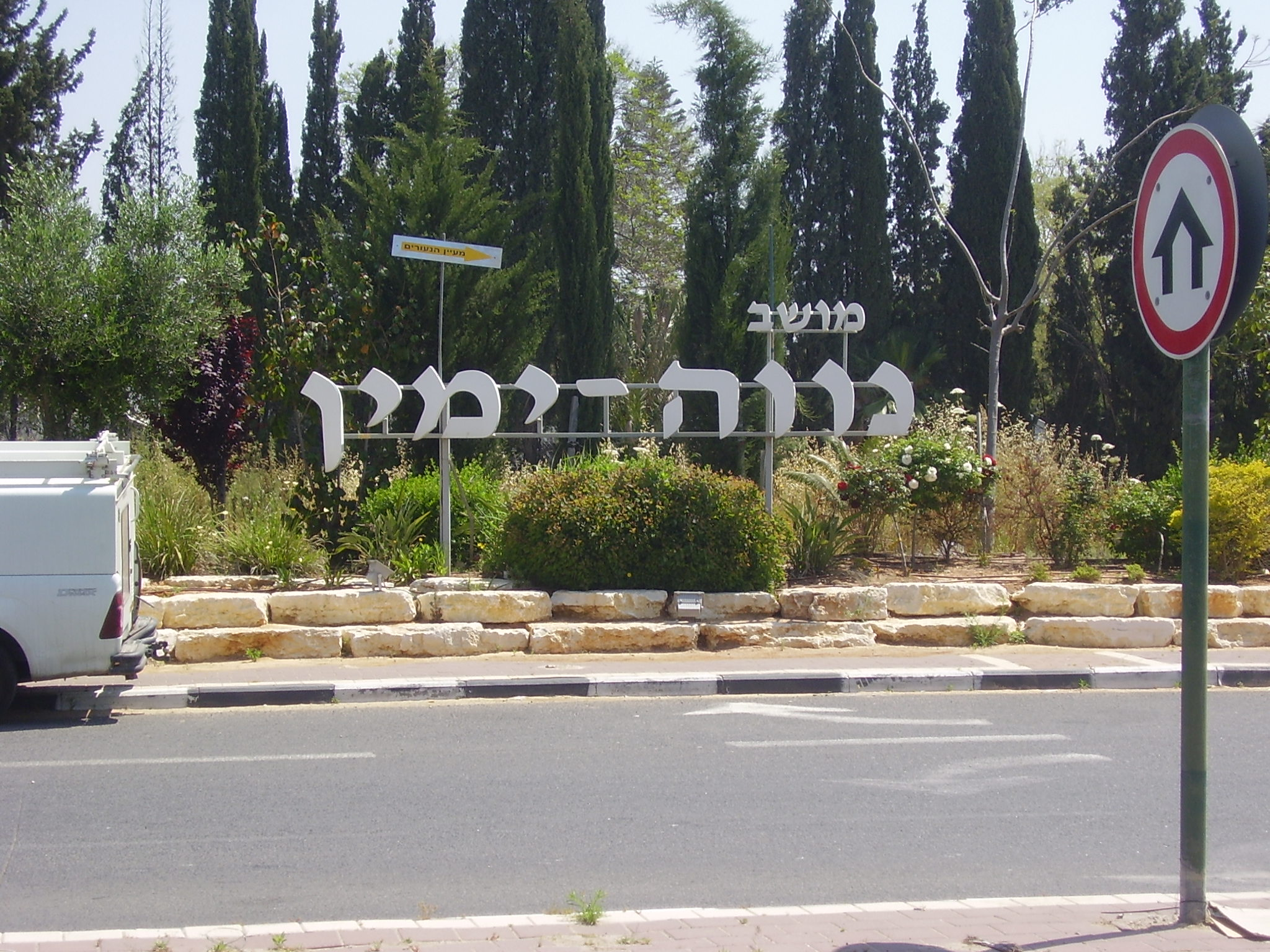 Entrance to Neve Yamin village, Israel